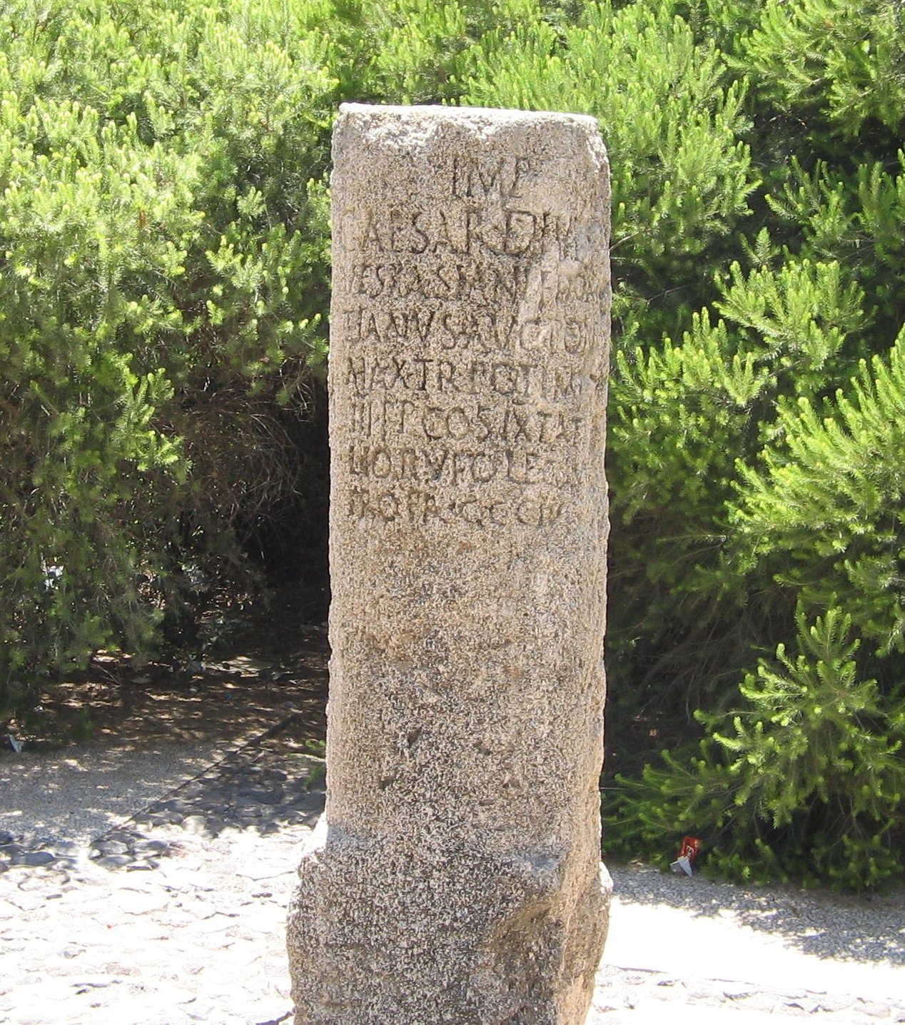 A Milestone from the reign of Domitianus, found in Israel (AE 1925, 0095) The inscription reads: Imp(erator) / Caesar divi / Vespasiani f(ilius) Dom/itianus Aug(ustus) pont(ifex) / max(imus) tr(ibunicia) pot(estate) imp(erator) / III p(ater) p(atriae) co(n)s(ul) IX T(ito) Ati/lio Rufo leg(ato) Aug(usti) / pro pr(aetore) CCCIV